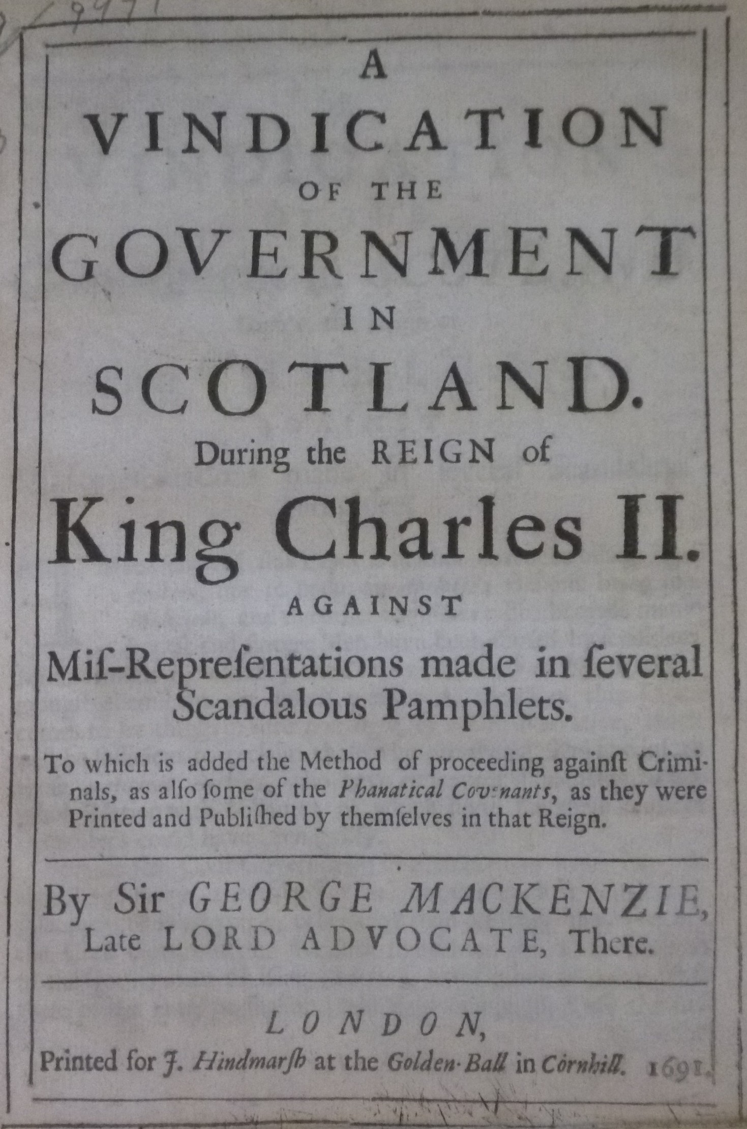 Title page of Mackenzie's Vindication of the Government in Scotland, 1691. The tract denouncing the Covenanters was published posthumously.